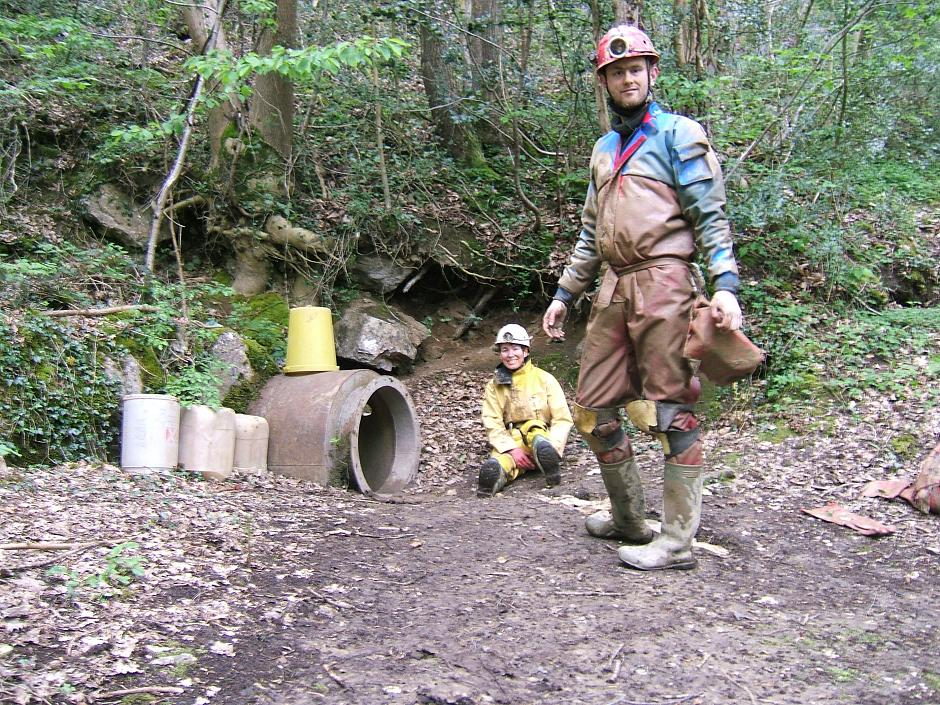 Cavers at entrance of Ogof Nadolig.